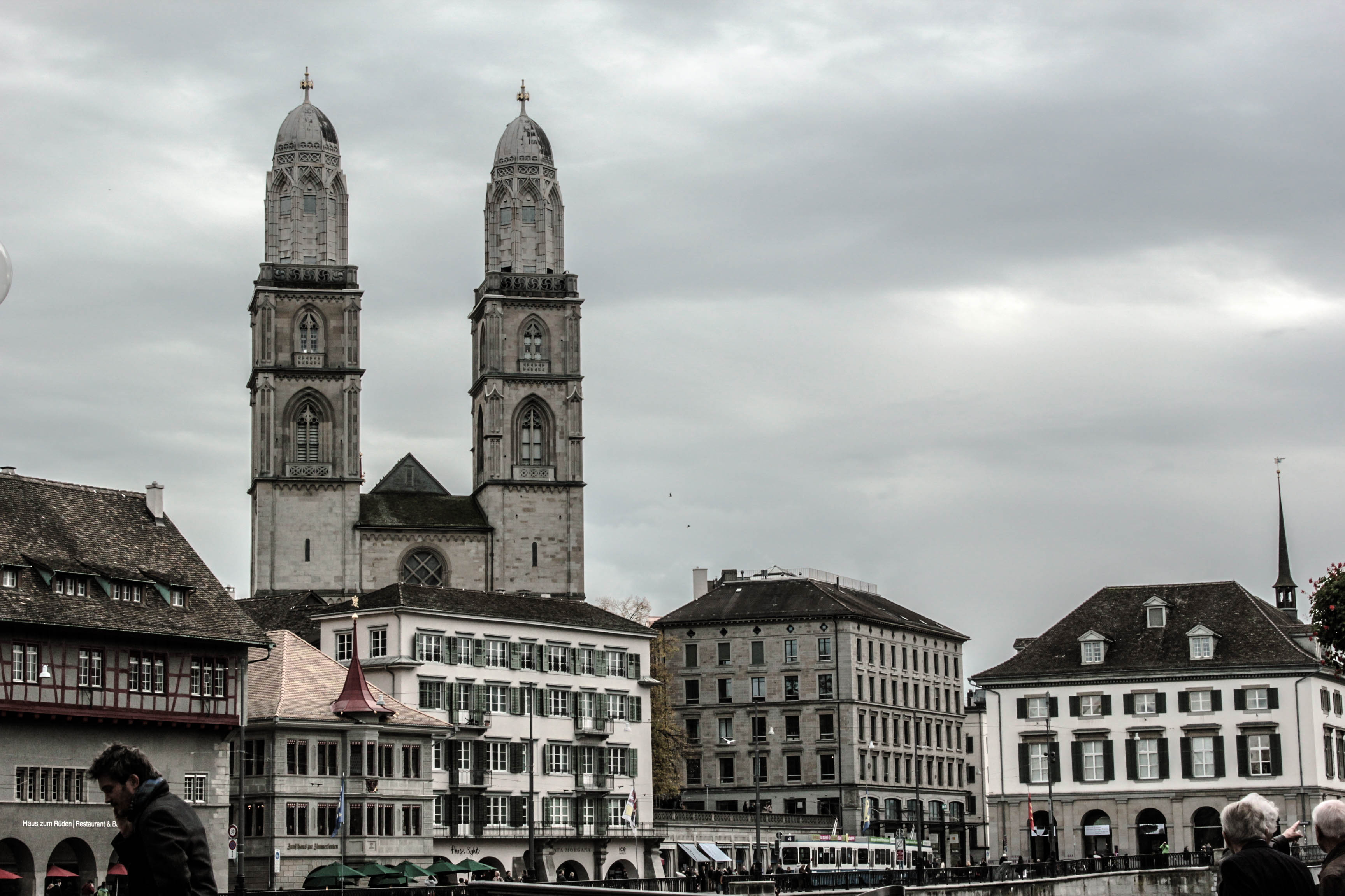 Zürich City Center